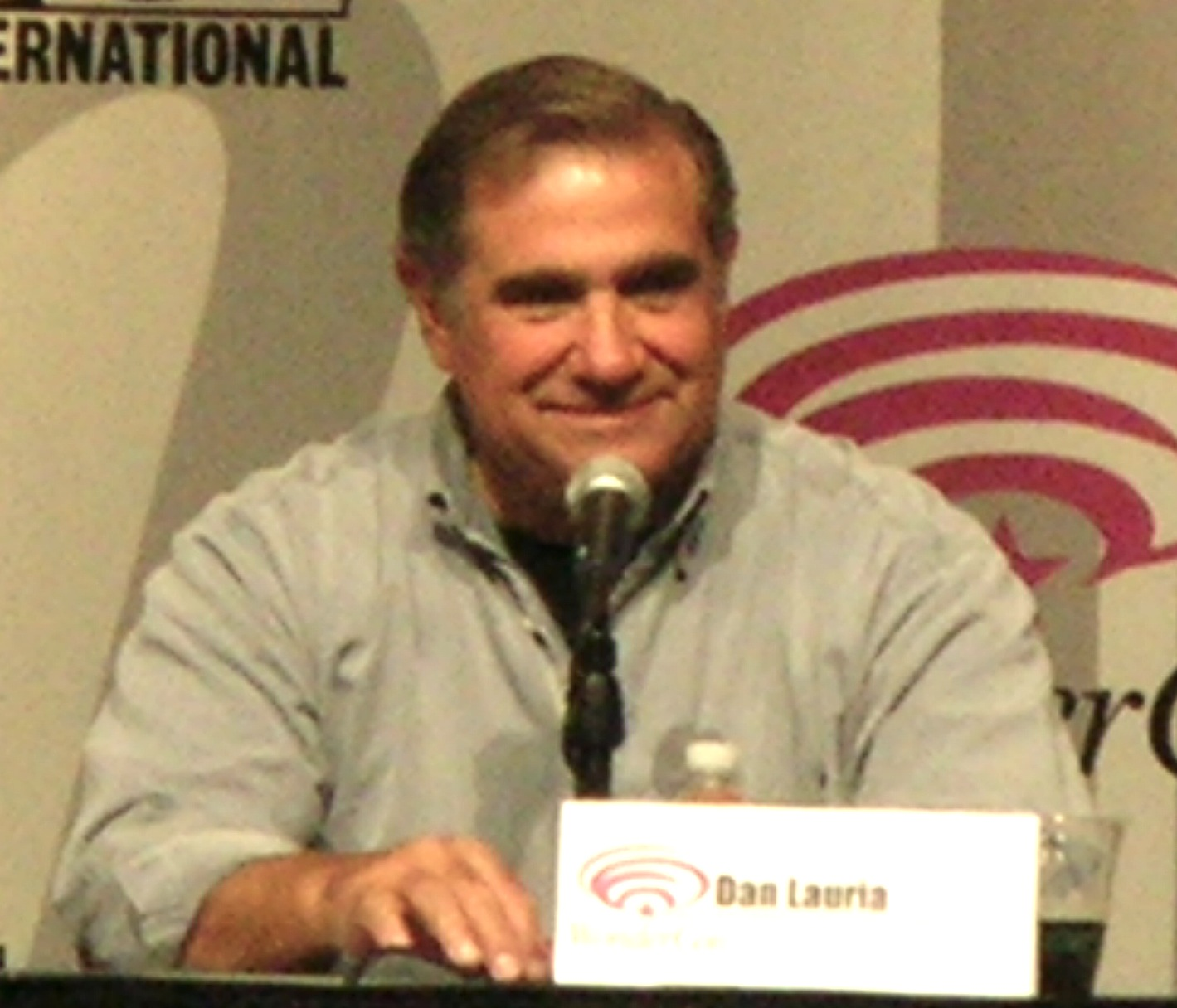 Dan Lauria participating in an Alien Trespass panel at WonderCon 2009